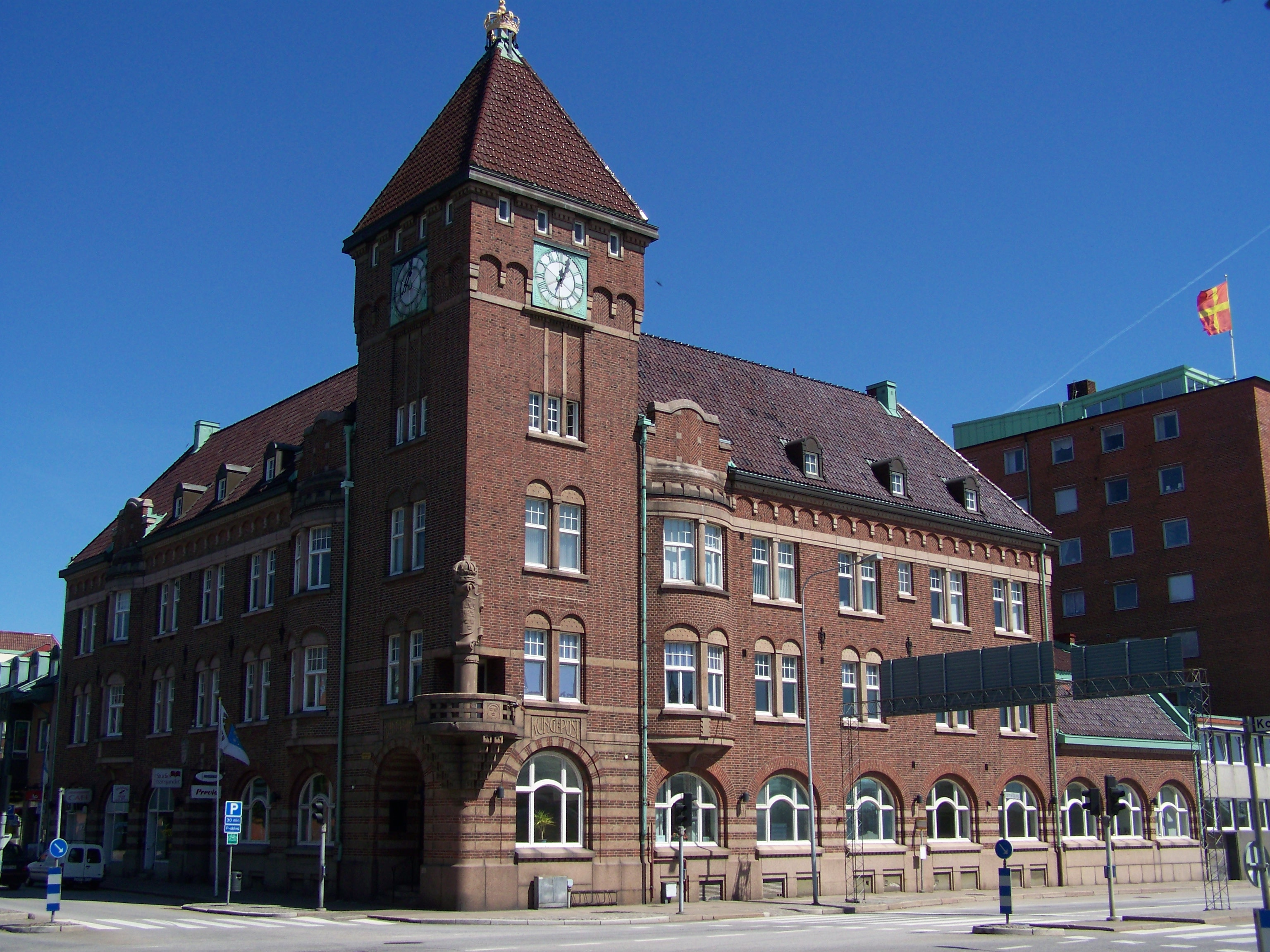 Post office in Trelleborg, Sweden. Designed in the National Romantic style.